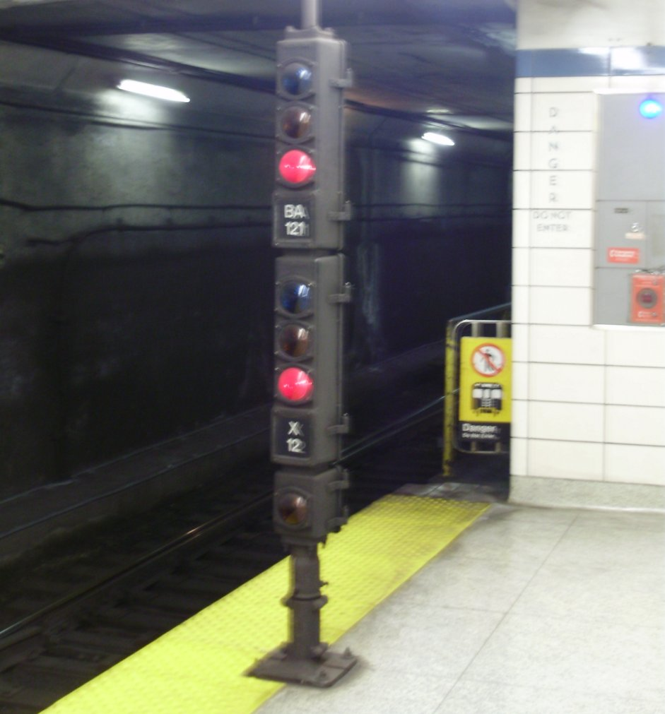 A subway traffic signal in the Toronto Transit Commission's Islington station in Toronto, Canada. This signal is one of only two in the Toronto subway system that is publicly accessible.